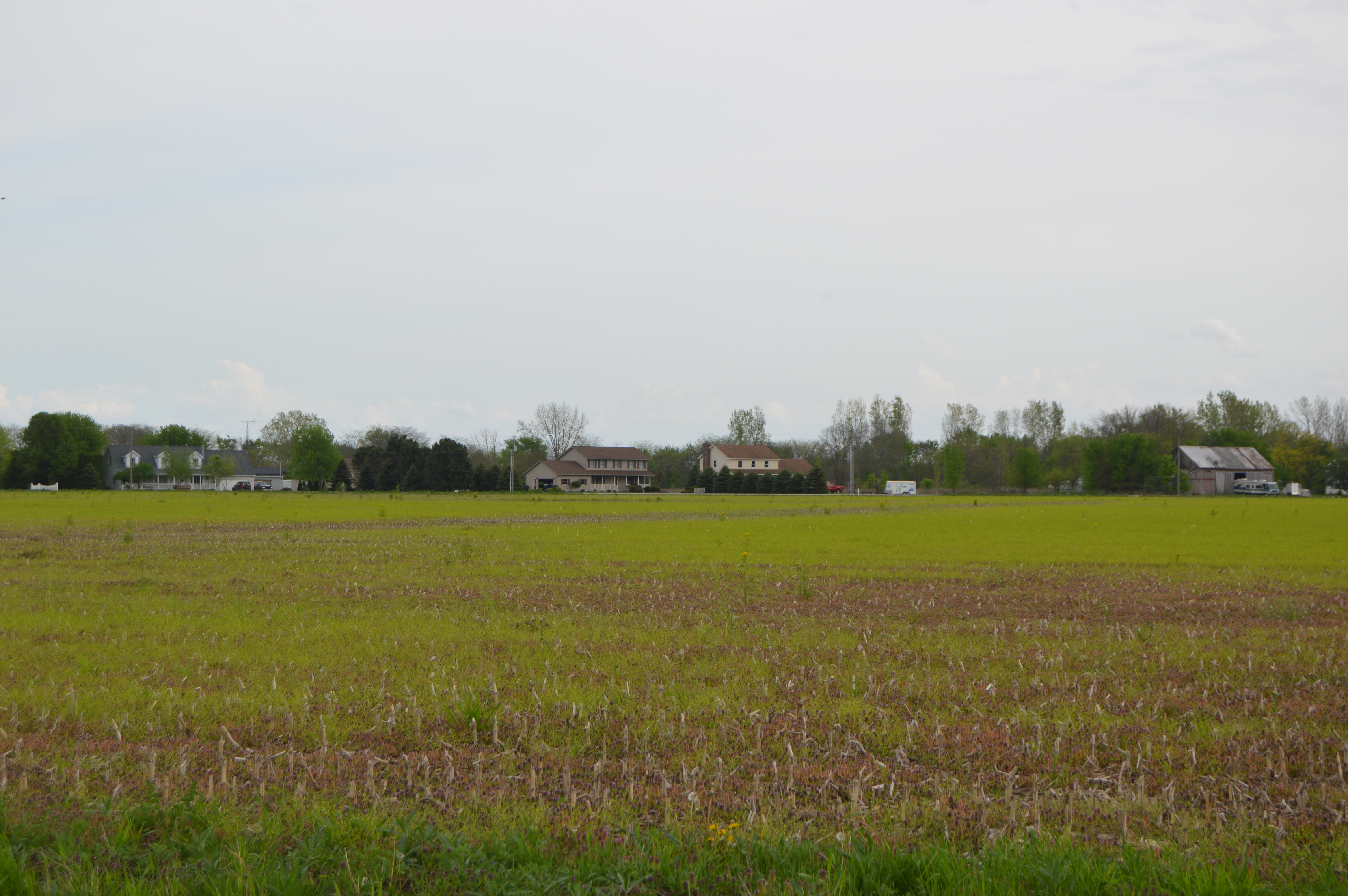 A stubble field on the southern side of Burgoon Road east of Burgoon in Jackson Township, Sandusky County, Ohio, United States. The houses in the distance face State Route 12.